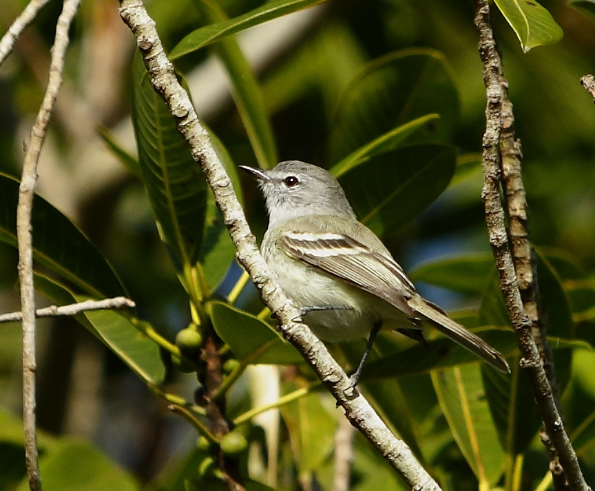 Plain tyrannulet at Aquidauana - MS - Brazil